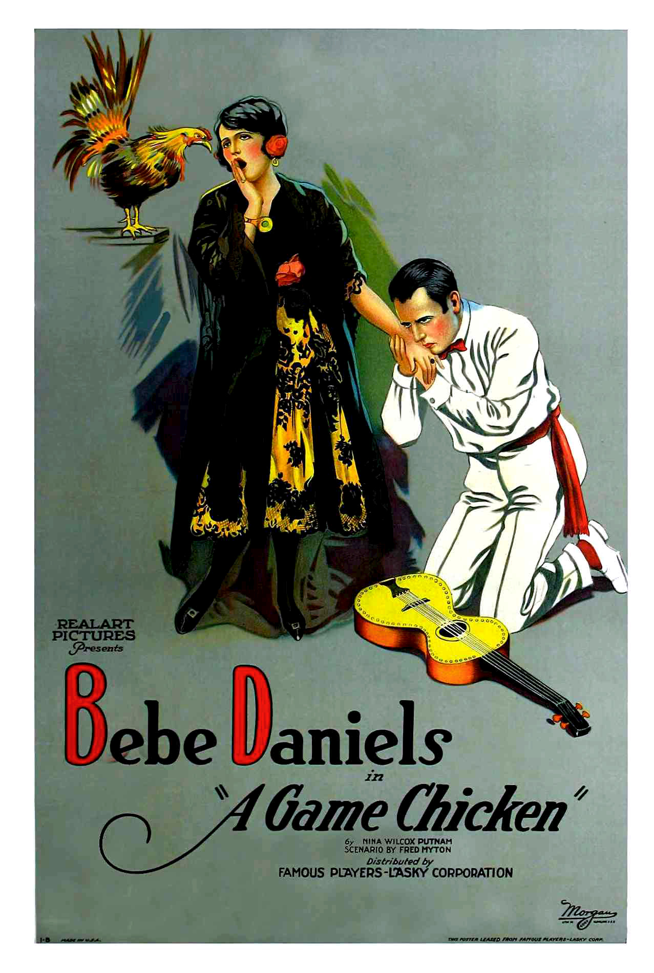 Poster for the American romantic comedy film A Game Chicken (1922) with Bebe Daniels.